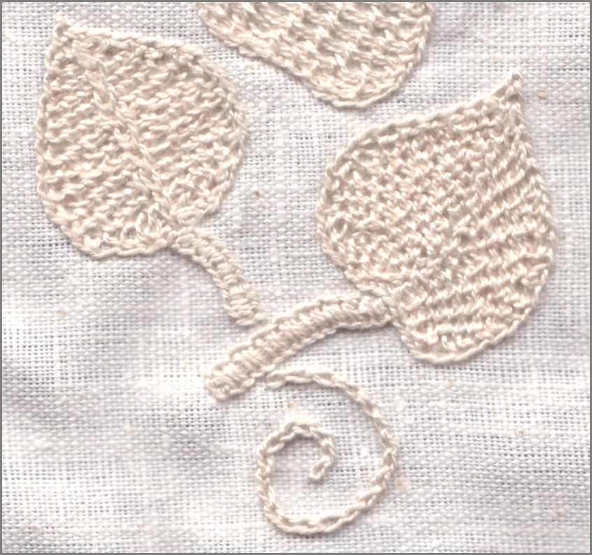 Embroidery in perle cotton yarn on cotton-linen blend fabric in buttonhole, detached buttonhole, and chain stitch